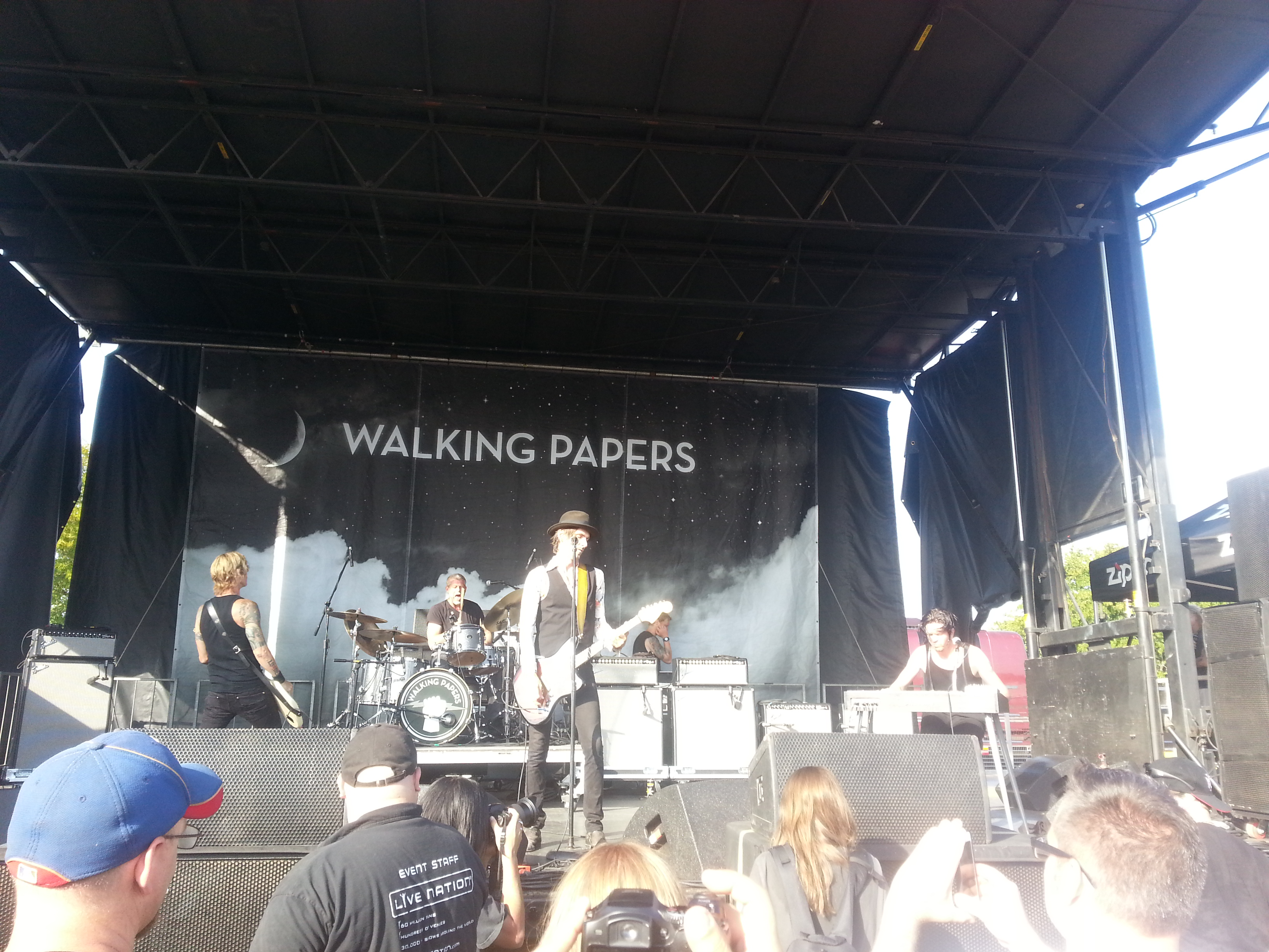 Walking Papers performing at Uproar Festival